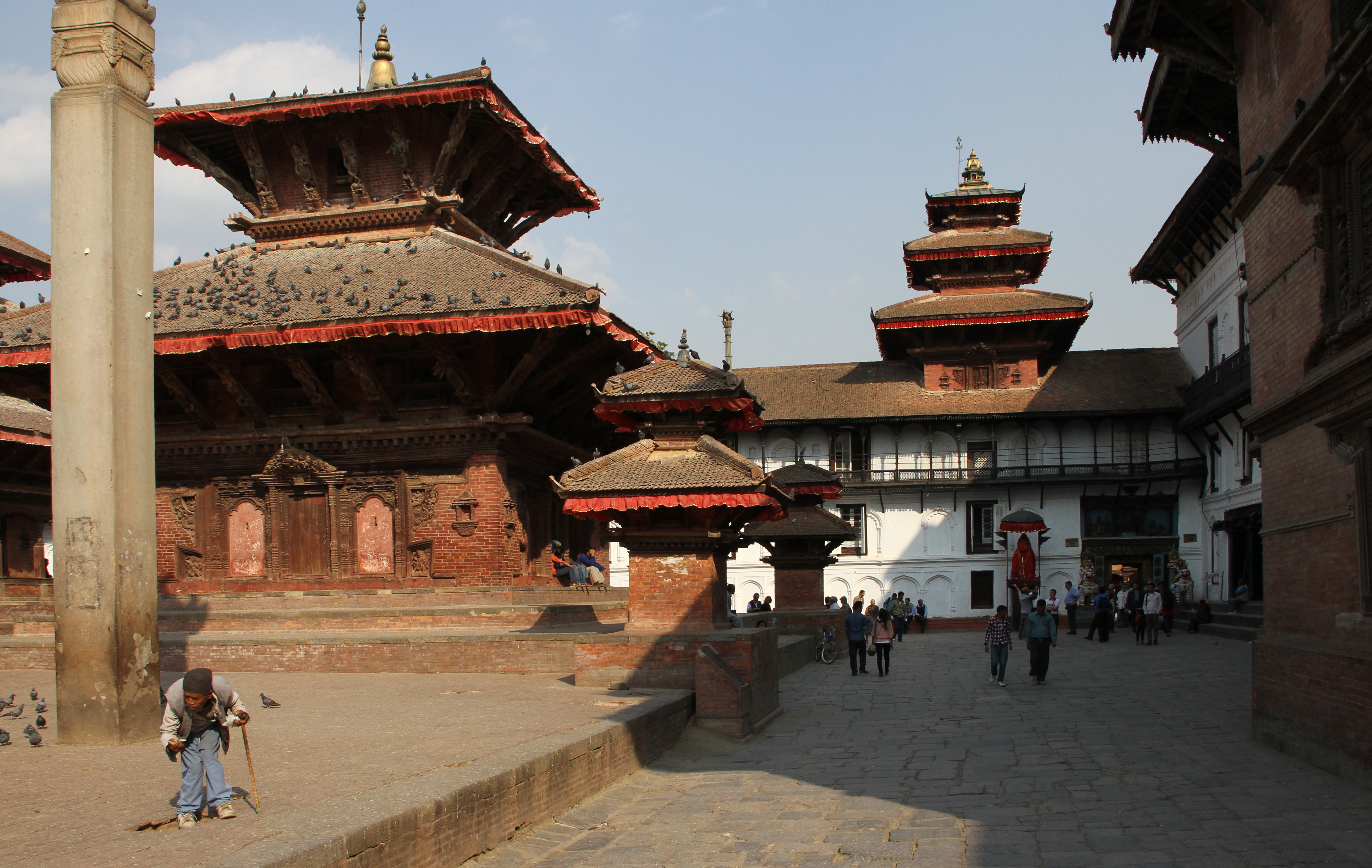 Durbar Square, Kathmandu